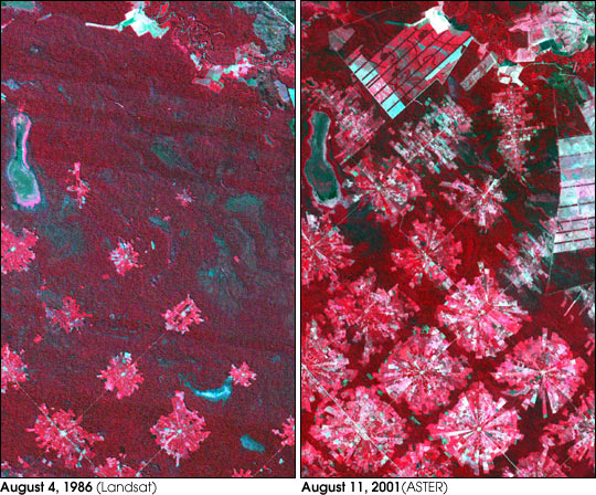 Deforestation in Santa Cruz, Bolivia. From Earth Observatory : "These images from 1986 and 2001 are for an area of tropical dry forest lying east of Santa Cruz de la Sierra, Bolivia. Since the mid-1980s, the resettlement of people from the Altiplano (the Andean high plains) and a large agricultural development effort (the Tierras Baja project) has lead to this area’s deforestation. Soybean production began in earnest in the early 1970s following a substantial increase in the crop’s world price. The pie or radial patterned fields are part of the San Javier resettlement scheme. At the center of each unit is a small community that includes a church, bar/café, school, and soccer field. The rectangular, light colored areas are fields of soybeans cultivated for export, mostly funded by foreign loans. The dark strips running through the fields are windbreaks, which are advantageous because the soils in this area are fine and prone to wind erosion. The 1986 Landsat image (left) was acquired on August 4, 1986, and the ASTER image (right) on August 11, 2001." Image courtesy NASA/GSFC/MITI/ERSDAC/JAROS, and U.S./Japan ASTER Science Team Any and all materials published on the Earth Observatory are freely available for re-publication or re-use, except where copyright is indicated. We ask that NASA's Earth Observatory be given credit for its original materials.